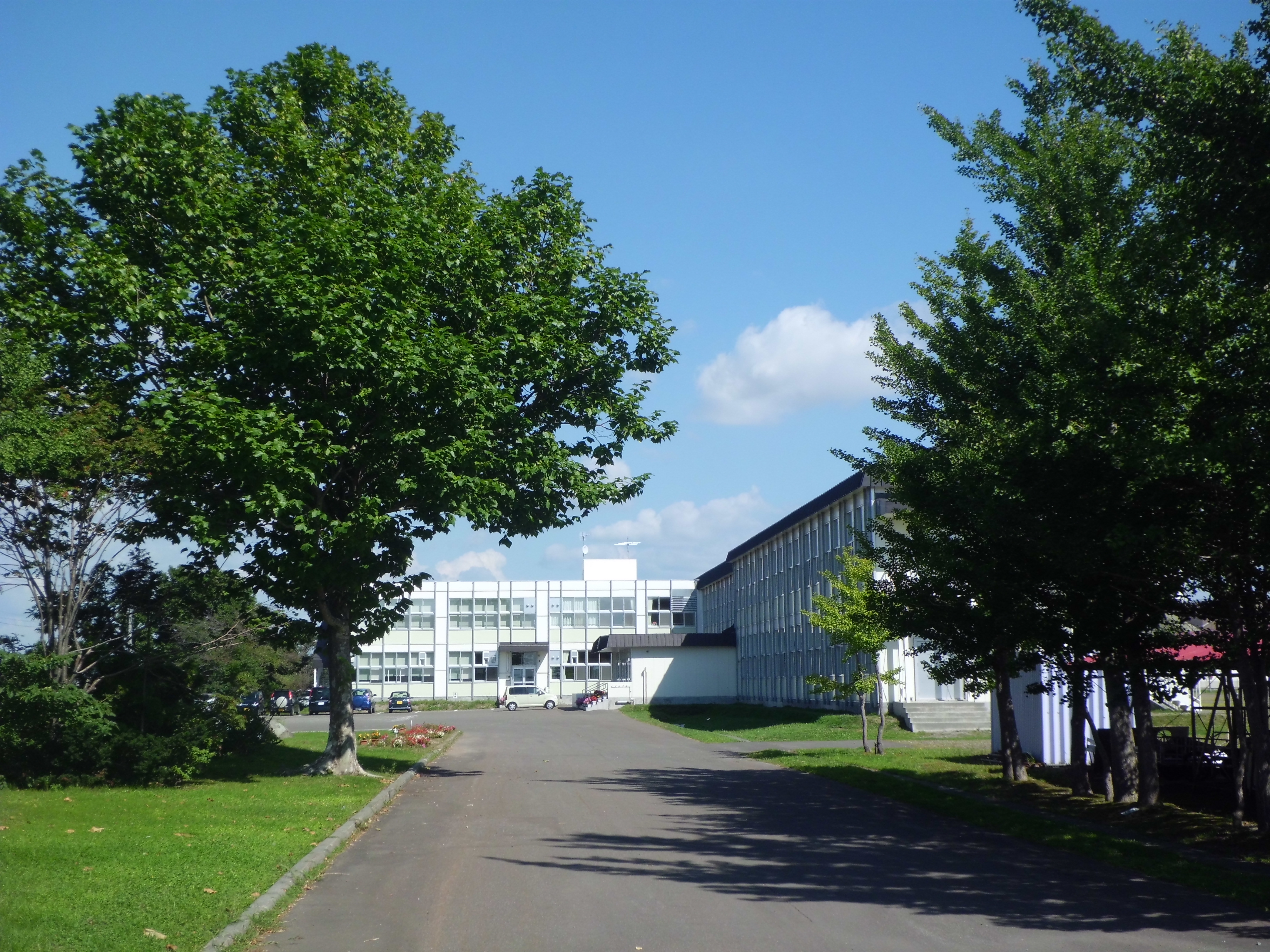 Shinshinotsu Village Shinshinotsu Elementary School